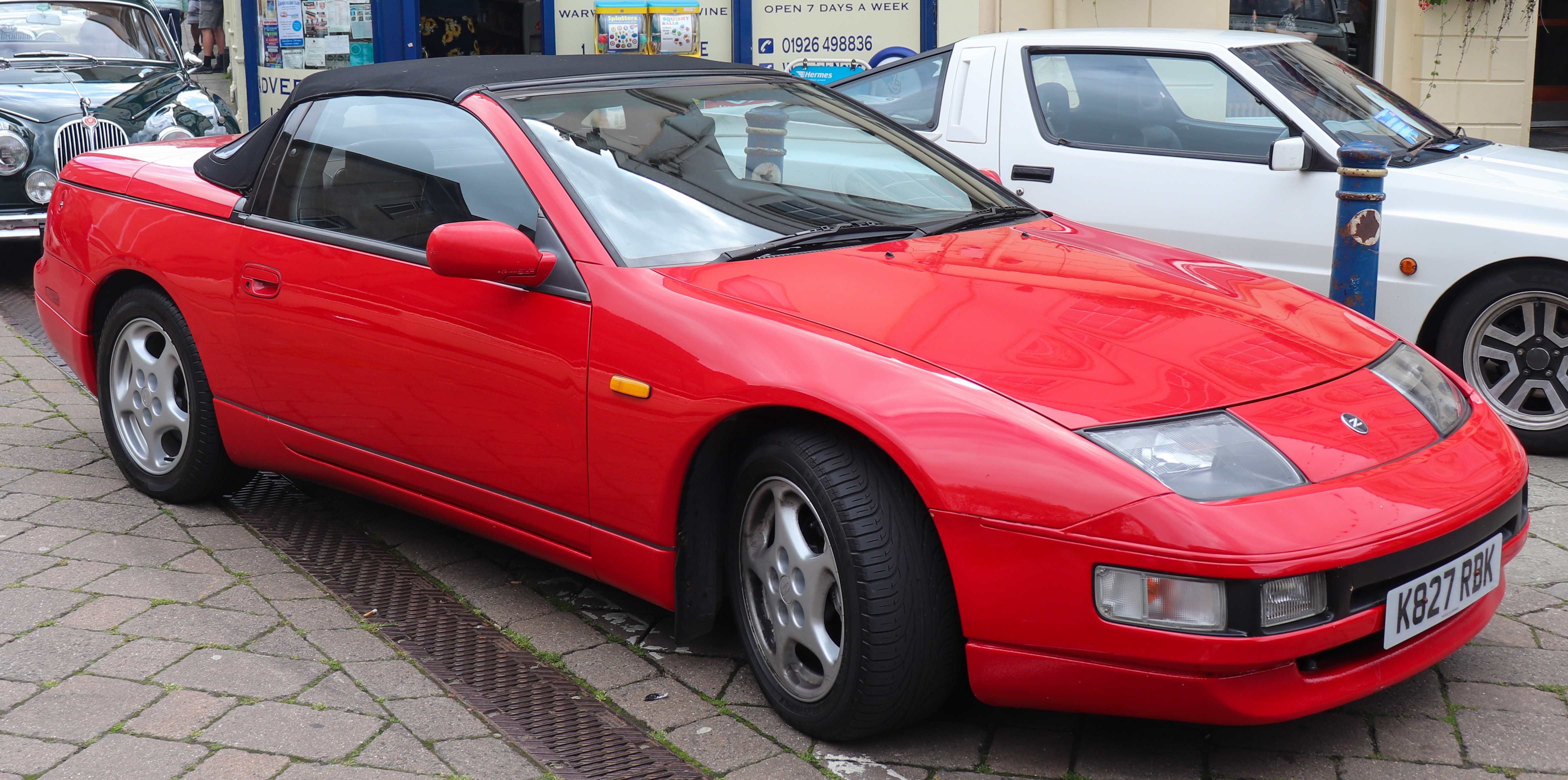 1992 Nissan 300ZX 3.0 Front Taken at the 2019 Warwick Classic Car Show